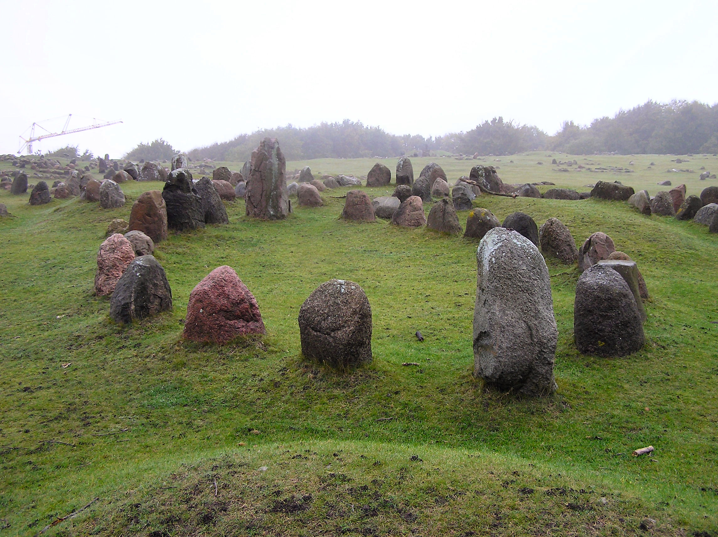 Lindholm Høje, burial place form Iron Age and Viking Age